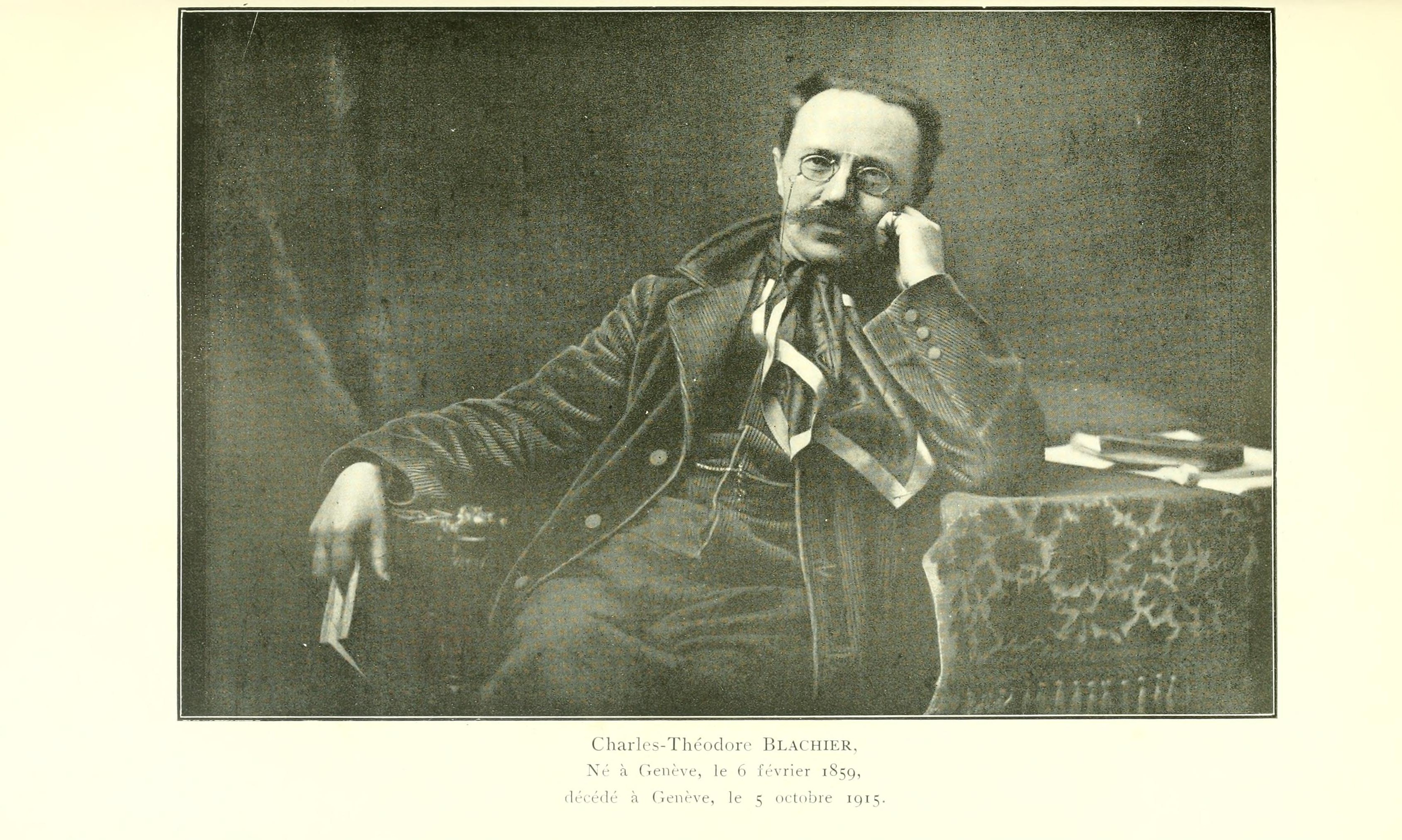 Charles Theodore Blachier